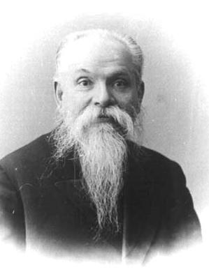 Portrait of Pavel Nekrasov (1853-1924), Russian mathematician